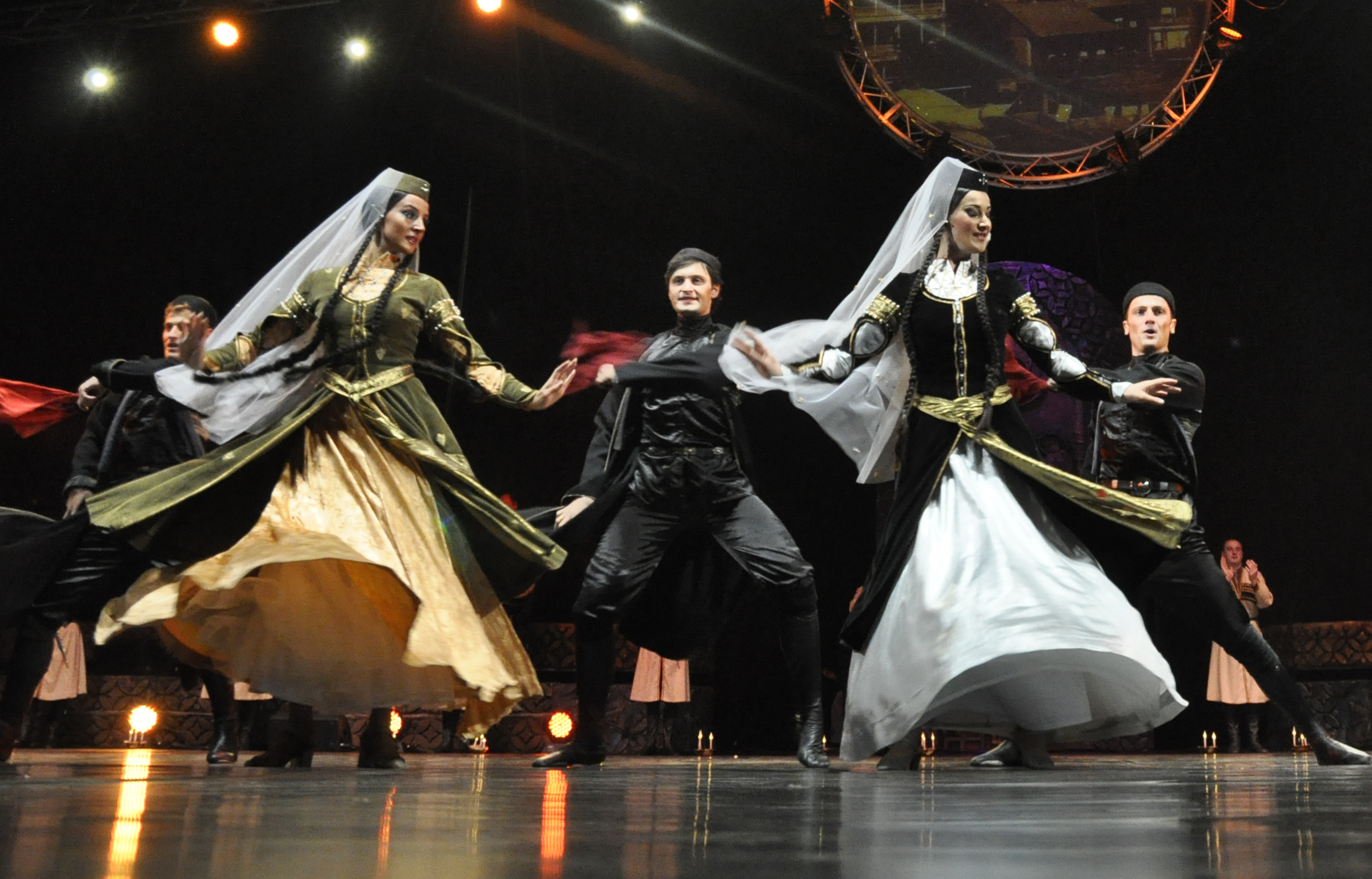 Erisioni